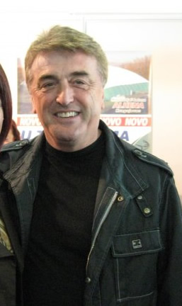 Radomir Antić (22 November 1948 in Žitište). Association football coach